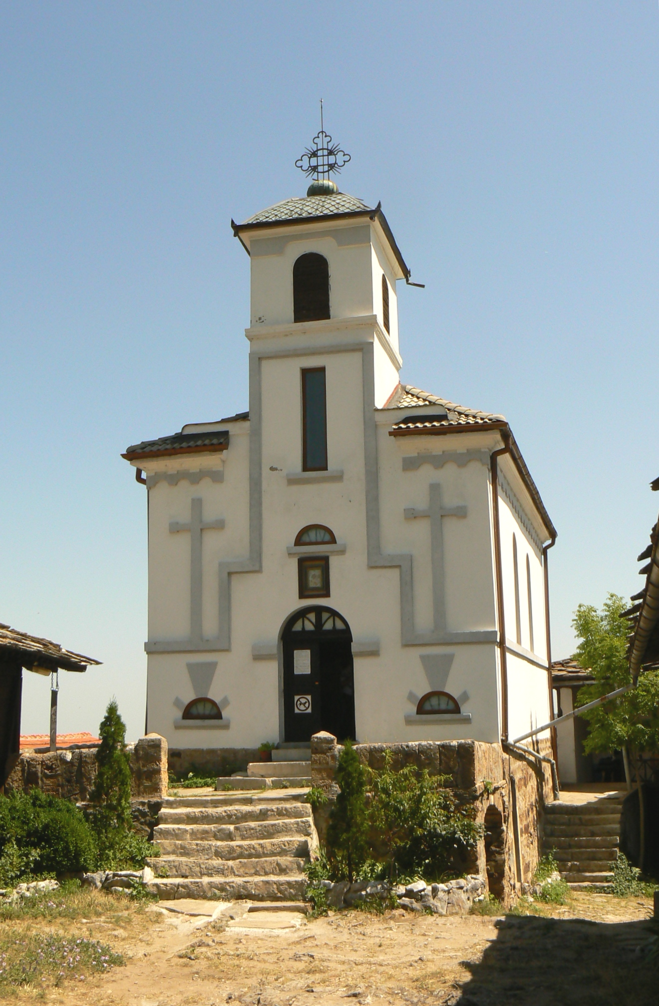 Church "Saint George" in Glozhene Monastery, Bulgaria